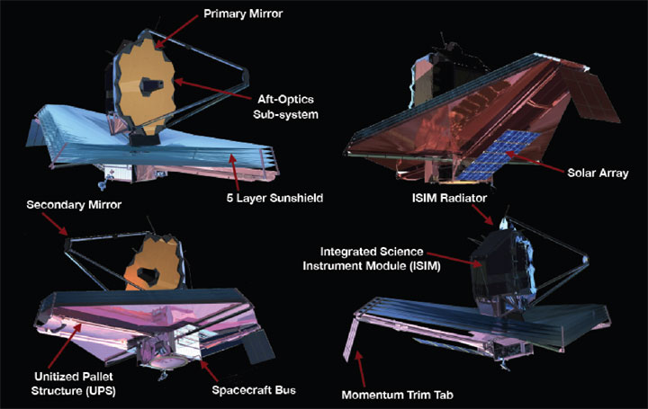 Current Webb design. Upper right: the design uses a long, single solar array in a “tail-dragger” configuration. Lower right: the sunshield includes a trim tab to balance the radiation torque. Lower left: the sunshield is stowed on two folding pallets, which remain with the observatory after deployment. Upper left: the optimized sunshield has straight edges ; the deployable optics are unchanged.